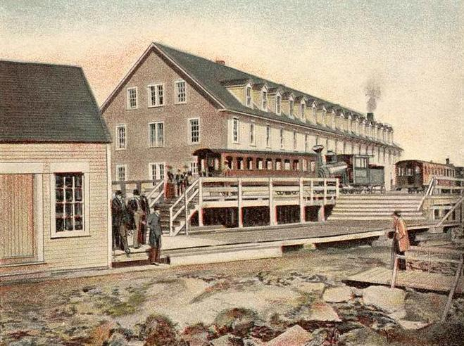 The Summit House, Mount Washington, New Hampshire. This was the second hotel of the name, built of wood in 1872 and opened the following year, but burned in 1908.